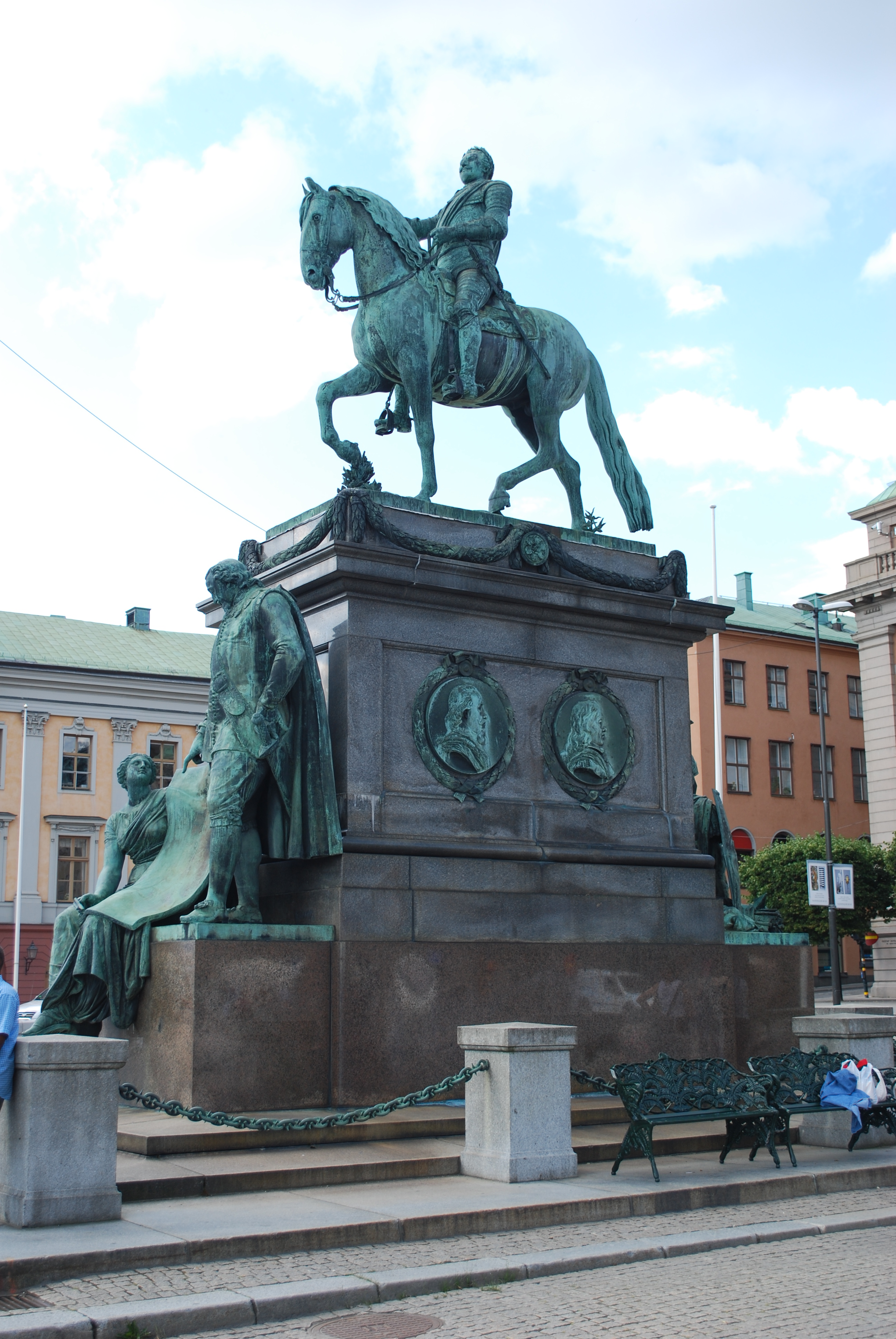 Gustav II Adolf as equestrian statue on Gustav Adolfs Torg, Stockholm. Gustav II Adolf's statue in Stockholm is an equestrian statue created by Pierre Hubert L'Archevêque and Johan Tobias Sergel, which stands on Gustav Adolf's square in Stockholm. The statue was inaugurated on November 17, 1796, the plinth sculptures came into place in 1906. In the years 1904–06, a project was carried out with a new granite pedestal, a minor relocation of the statue and casting according to Sergel's models of the plinth groups at Meyer's foundry (Gerhard Meyer).